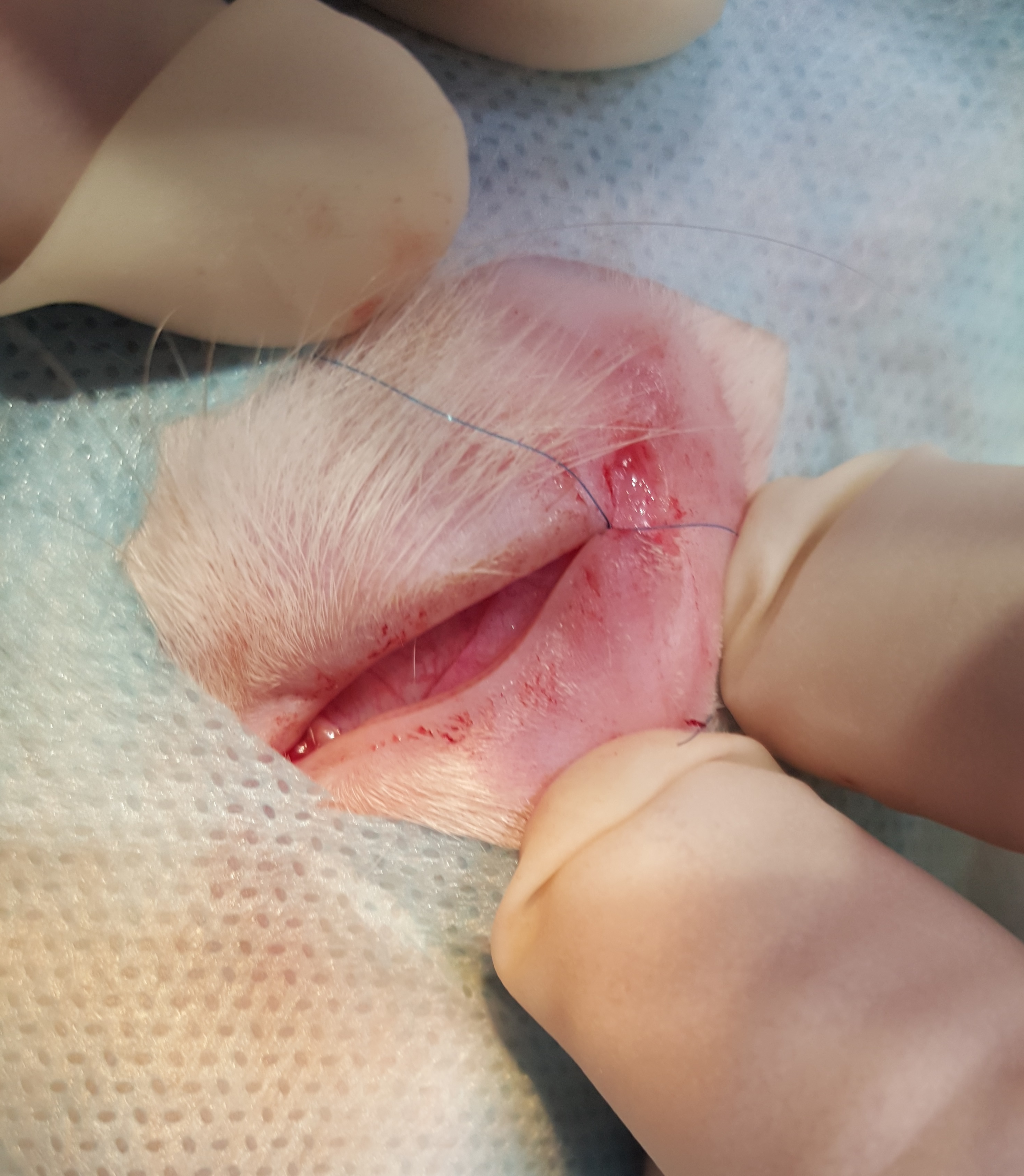 Bigelbach technique used to correct Feline entropion